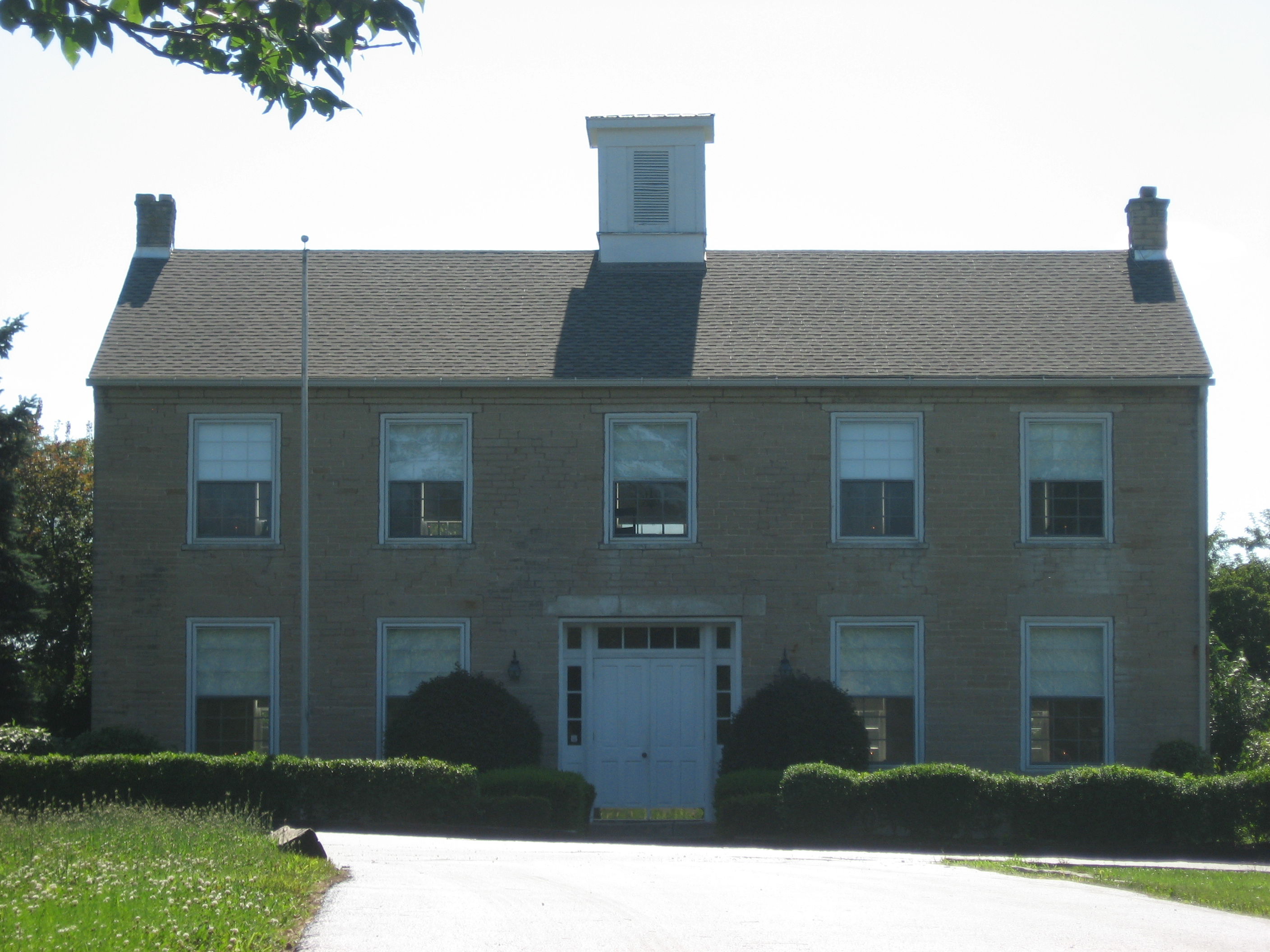 Front of the South Salem Academy, located on the western side of Church Street in South Salem, Ohio, United States. Built in 1842, it is listed on the National Register of Historic Places.